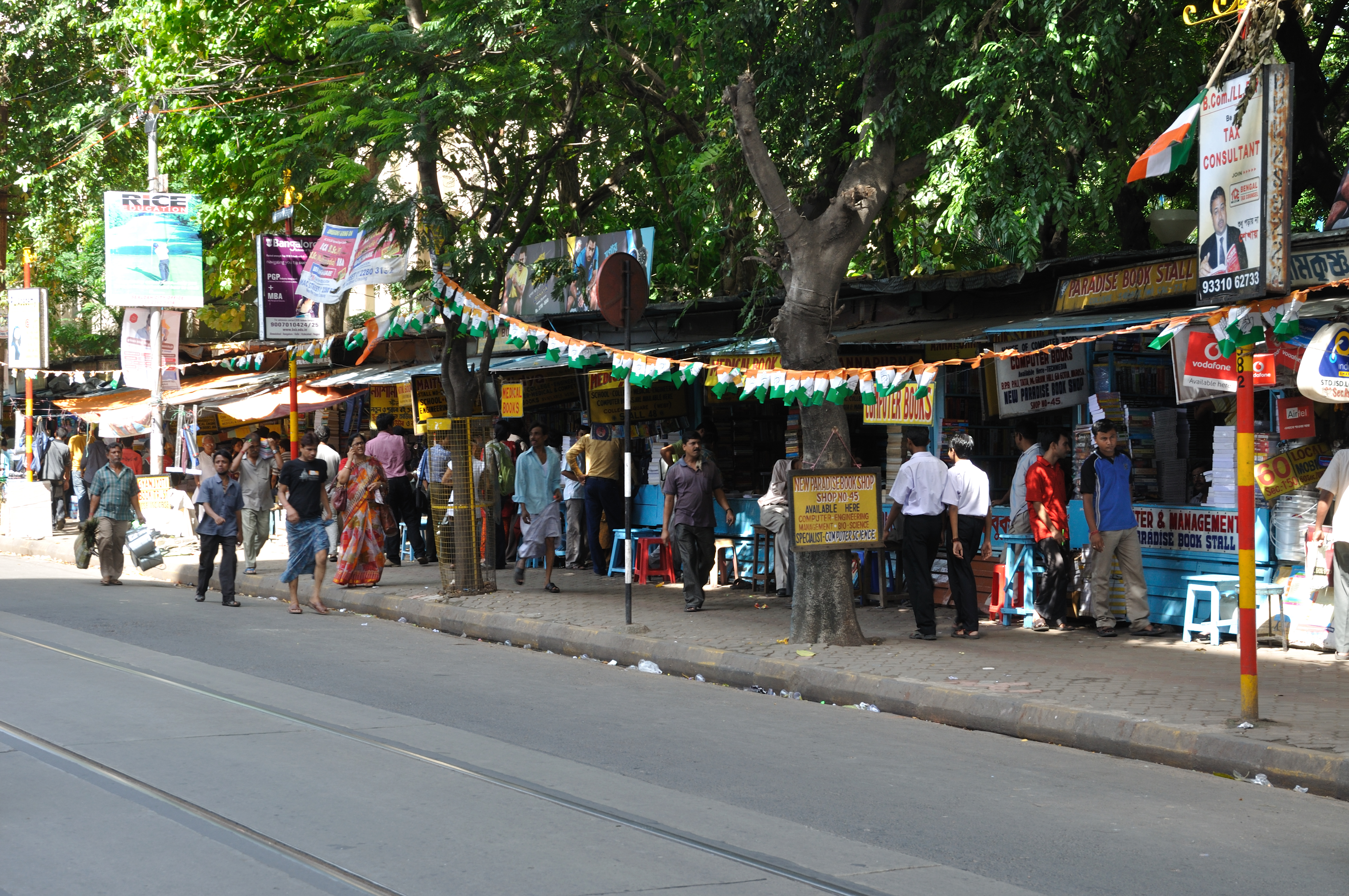 The College Street is most famous for its bookstores. It is the largest second-hand book market in the world and largest book market in India.